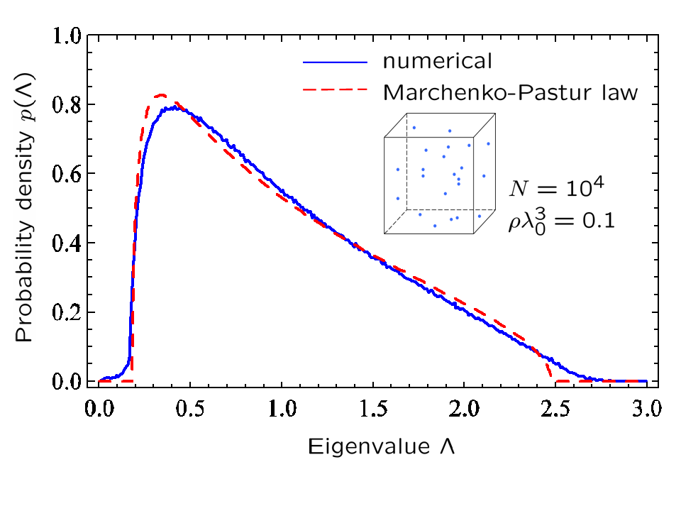 Example of the probability density of the real eigenvalues of the Euclidean matrix defined by a function sin(x)/x